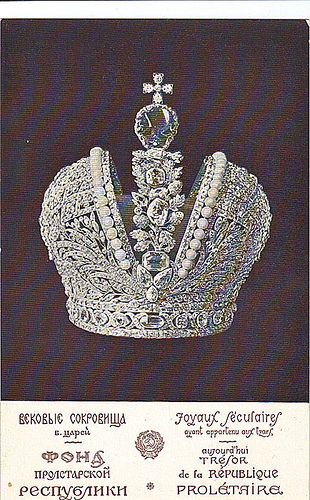 Ages-old treasures of the Russian Tsars - now in the fund of the proletarian republic. Soviet bilingual (Russian/French) postcard depicting the Grand Crown of the Russian Empire.